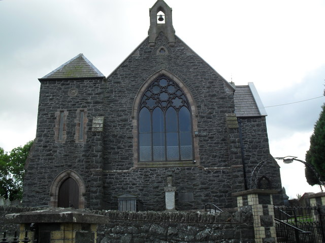 Ballyblack Presbyterian Church Ballyblack Presbyterian Church - constructed in 1872 - off Newtownards' Ballyblack Road between Loughries and Carrowdore.